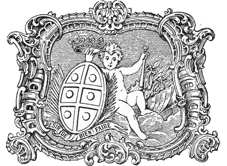 Lithograph from an ex-libris of the Marquesses of Lavradio, Counts of Avintes